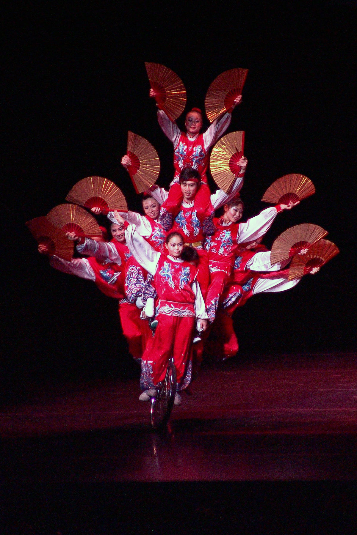 Multiple Chinese circus performers with fans on a bicycle demonstrating a balancing act at the Tilles Center for the Performing Arts on the CW Post campus of Long Island University.